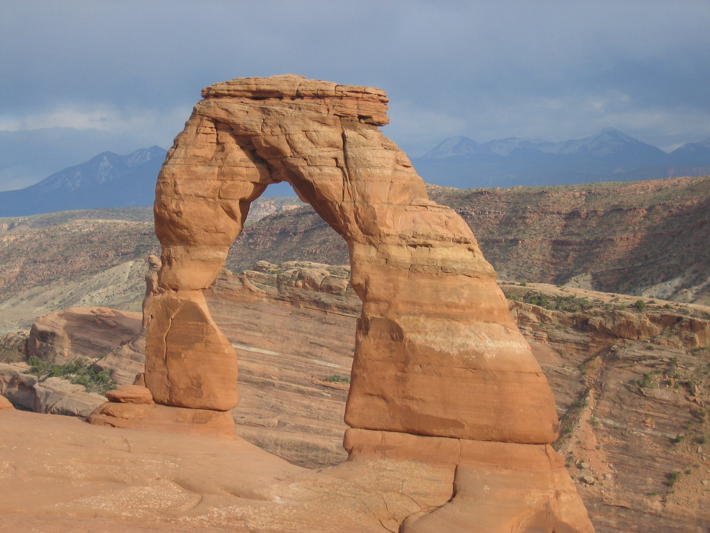 Photo of Delicate Arch in Arches National Park, Utah, USA.